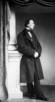 Photograph of Hans Christian Andersen taken by Danish photographer Rudolph Striegler in 1861 using the carte-de-visite technique